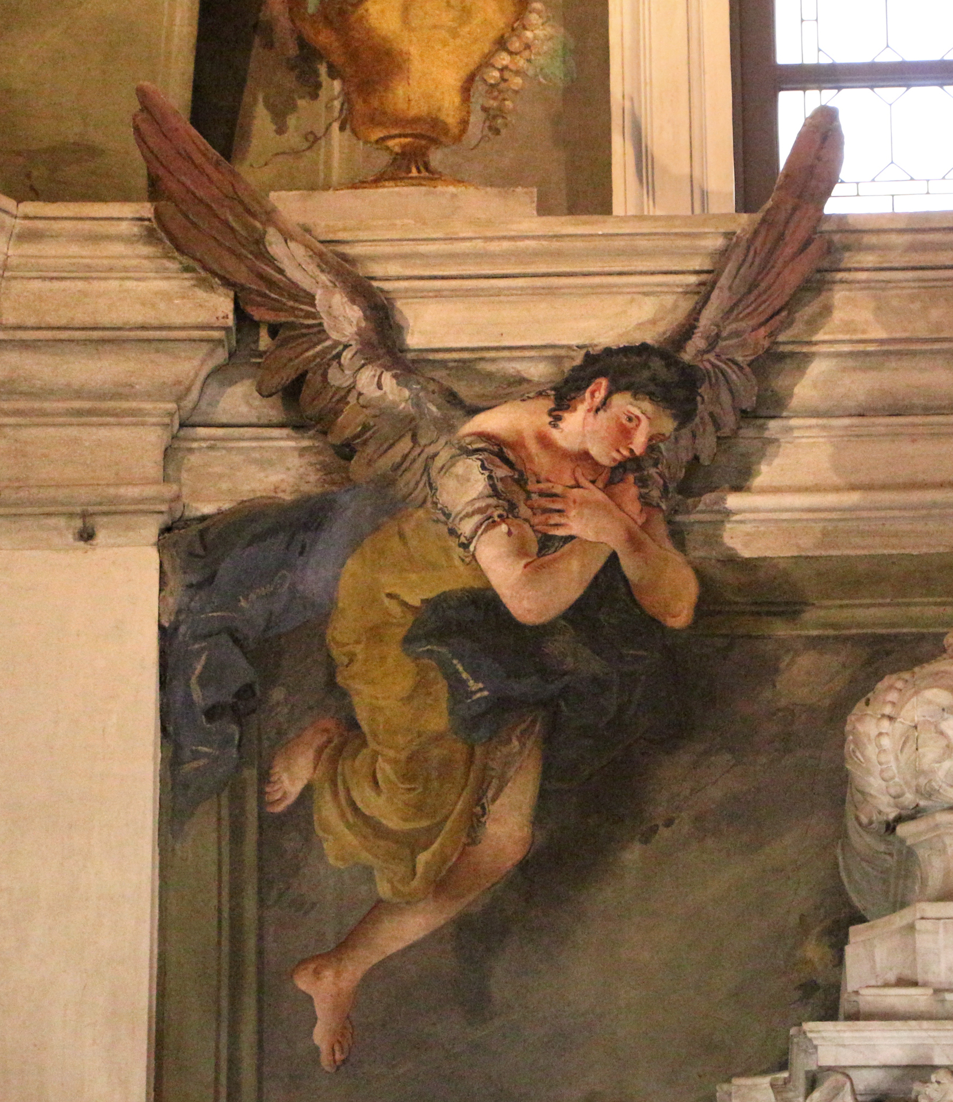 Duomo (Udine)